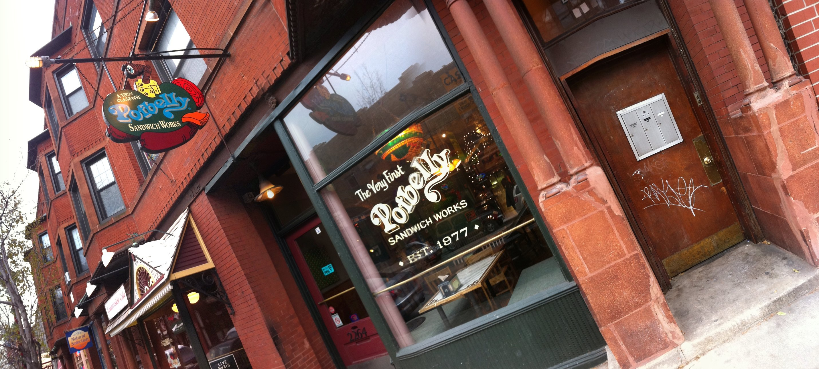 the first potbelly restaurant , shot in december 2010